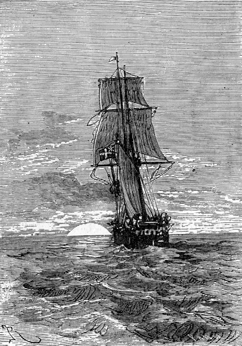 An ilustration from the novel "In Search of the Castaways; or Captain Grant's Children" by Jules Verne drawn by Édouard Riou.